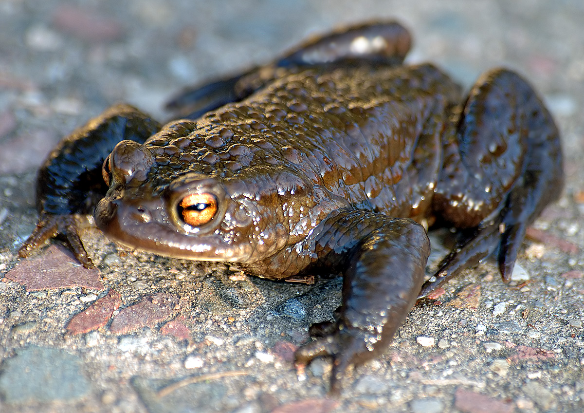 This image shows a Common toad.